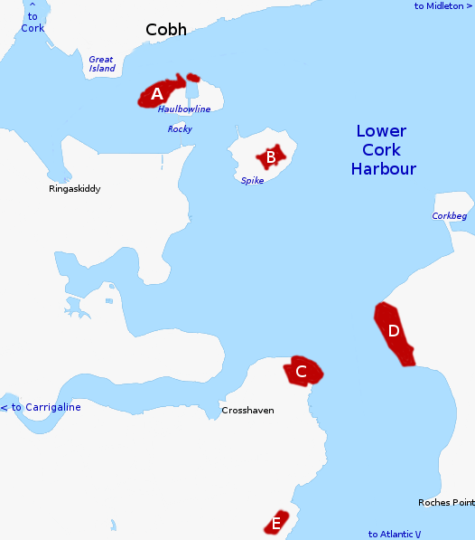 Embarrassingly basic layout "map" of Lower Cork Harbour in County Cork, Ireland. Expanded and largely hand-drawn from open/PD sources. Red highlighted areas indicate naval/military installations. (Some extant, some historic or demilitarised): A - Haulbowline Naval Base, HQ of the Irish Naval Service B - Fort Mitchel (previously Fort Westmoreland) on Spike Island C - Fort Meagher (previously Fort Camden) close to Crosshaven D - Fort Davis (previously Fort Carlisle) close to Whitegate E - Fort Templebreedy (or Templebreedy Battery)